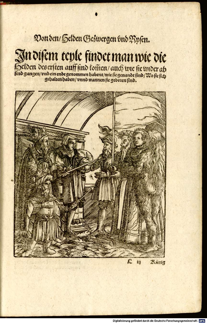 The 1545 edition of the Strasssburg Heldenbuch, printed in Augsburg by Heinrich Steiner